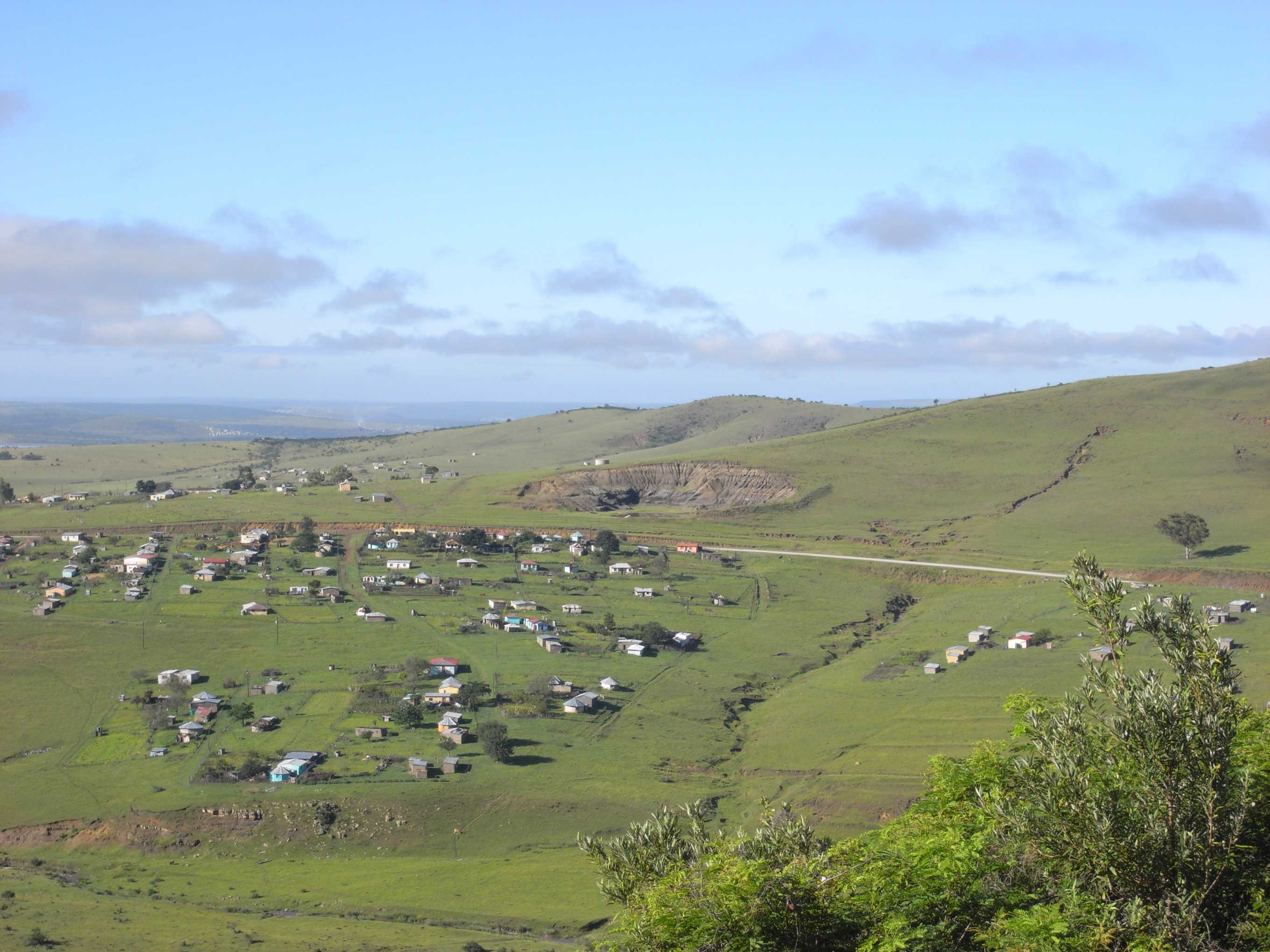 Xhosa settlement of the Tyhme valley in Eastern Cape, Amathole Mountains (Republic of South Africa)